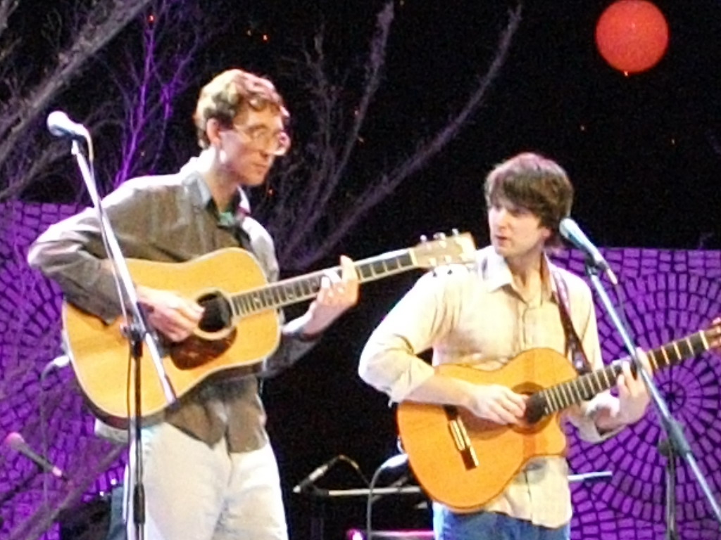 Kings of Convenience Live in Bangkok.